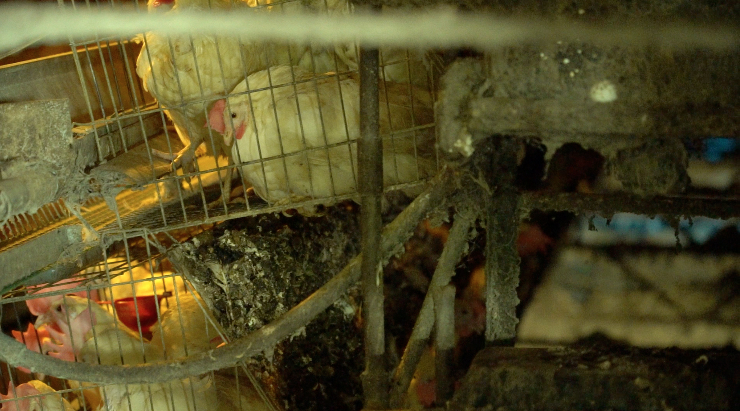 Subway restaurant 2018 egg supplier investigation, showing feces piles up inches away from birds. Released into public domain from